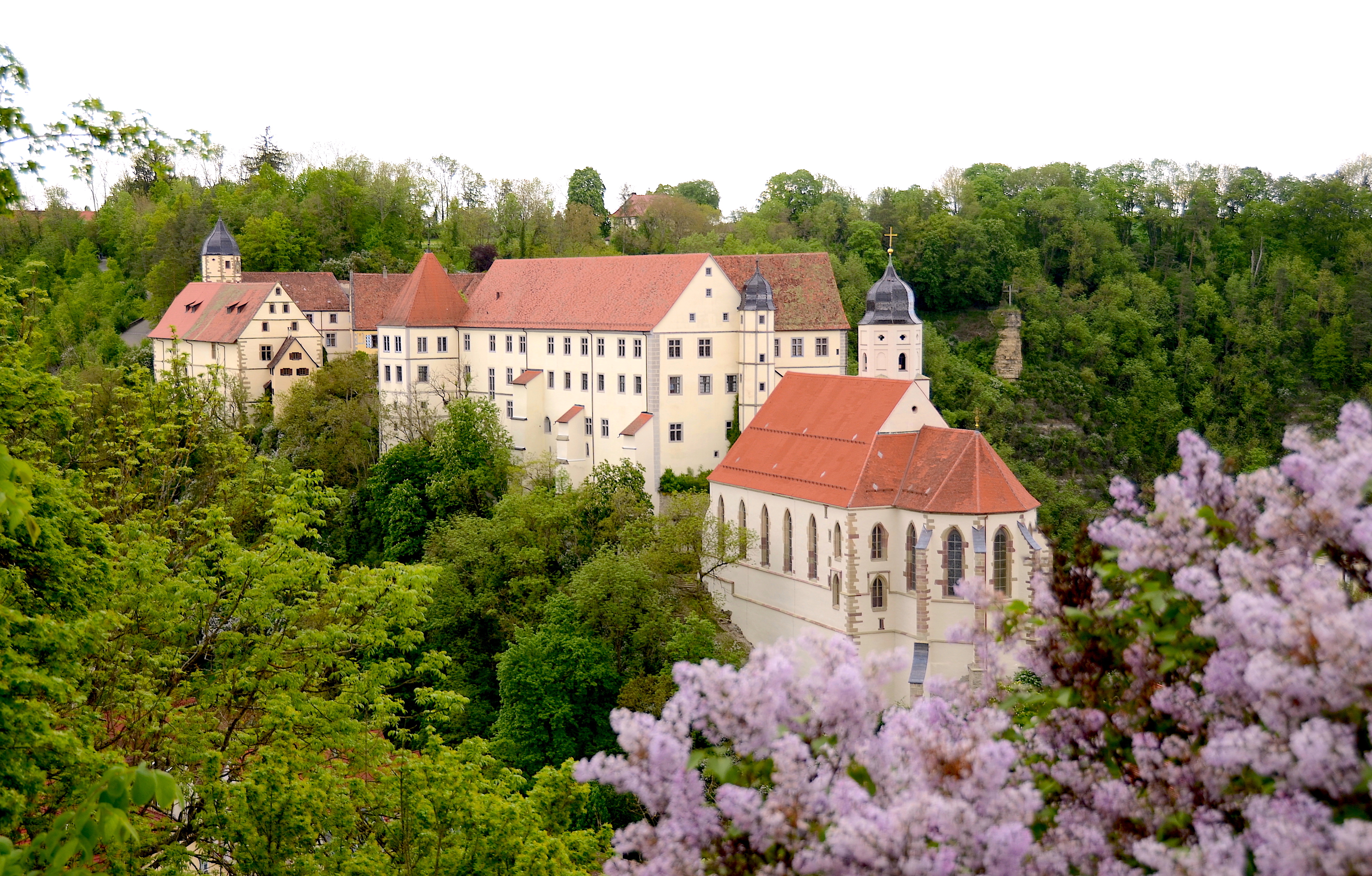 Haigerloch castle and castle church (2016)